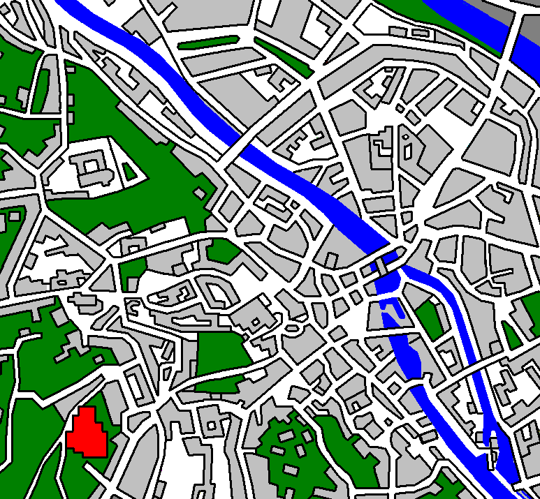 locator map in the German town of Bamberg